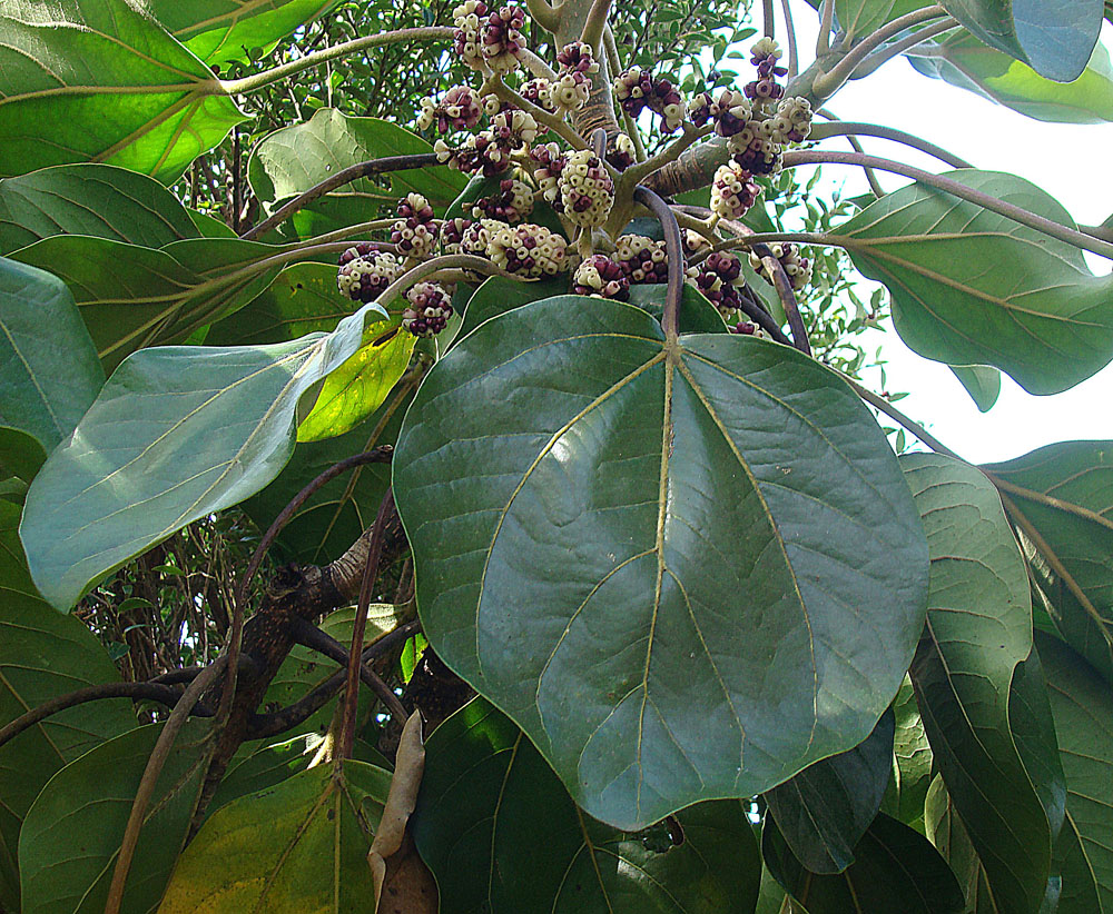 An unusual tree found in the mountains of Costa Rica and western Panama. Photo from Dota area of Costa Rica. In context at